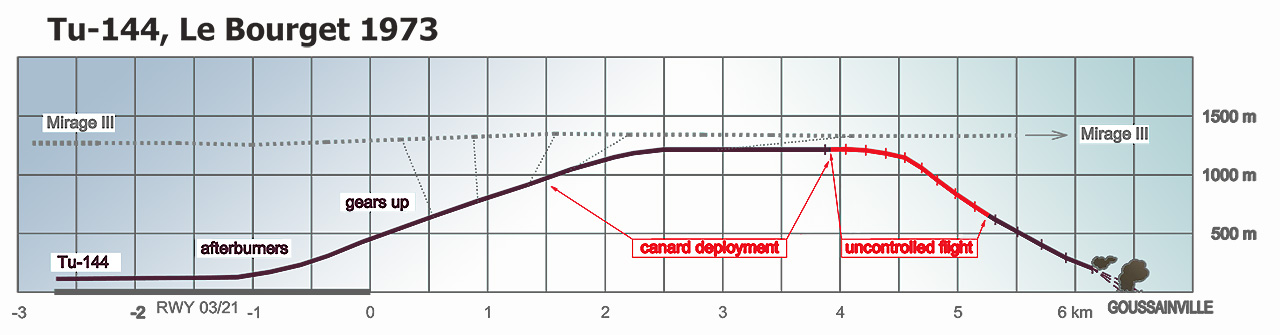 Le Bourget disaster 1973 - flight profile of Tu-144 and Mirage III